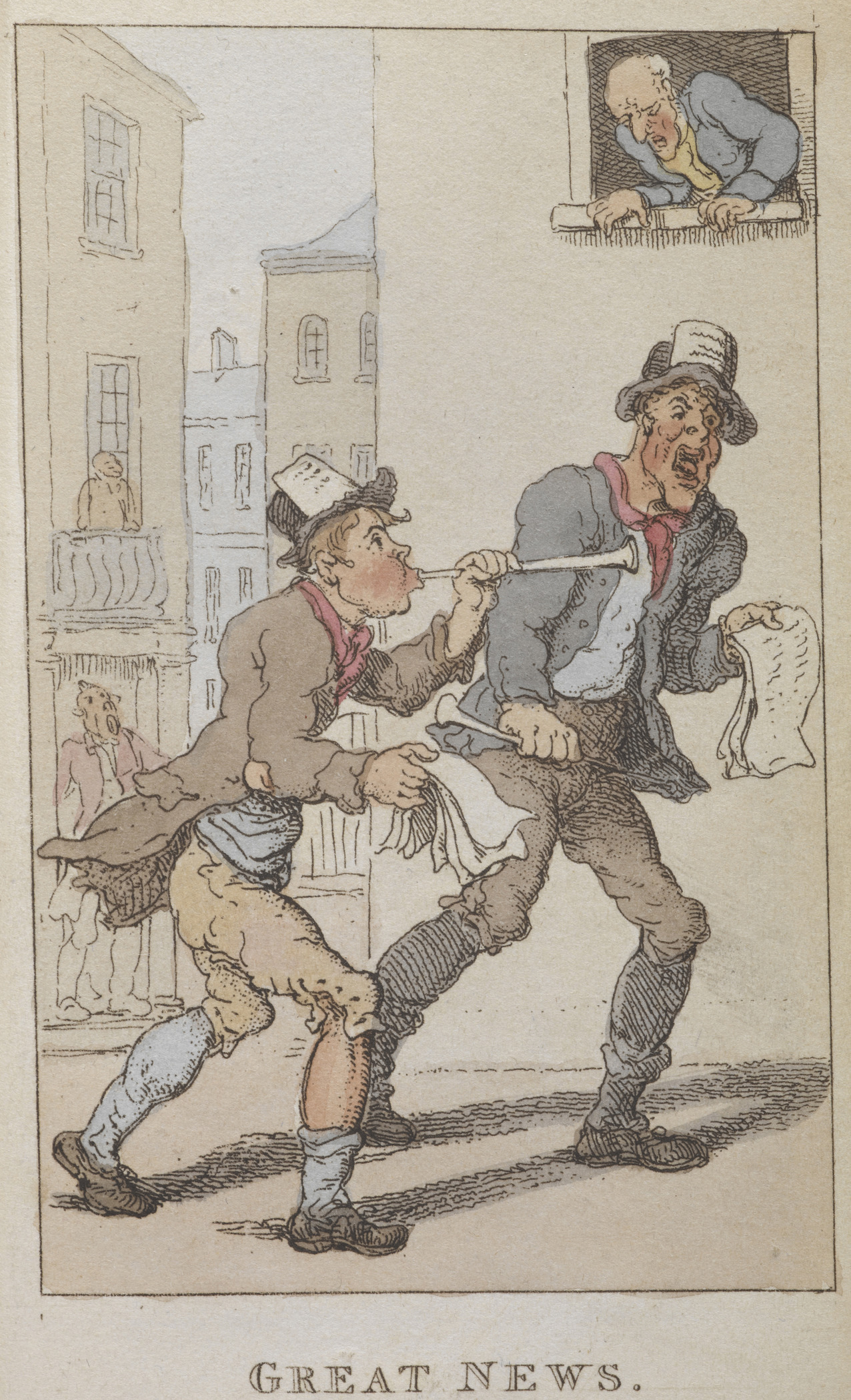 'Great news'. Two men handing out news notices in the street. One blowing a small wind instrument.